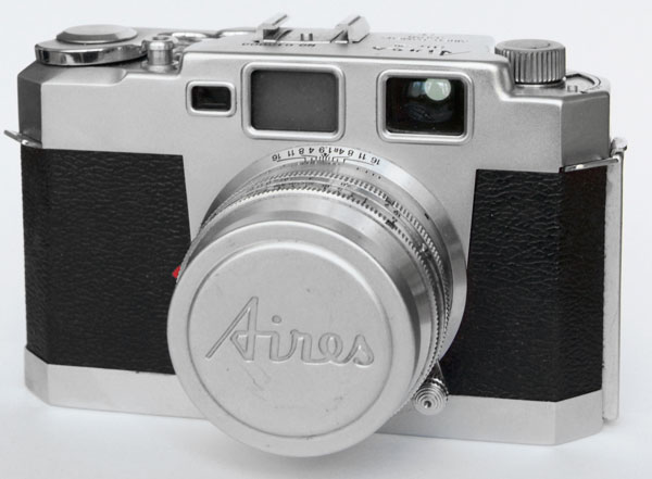 Aires 35-III